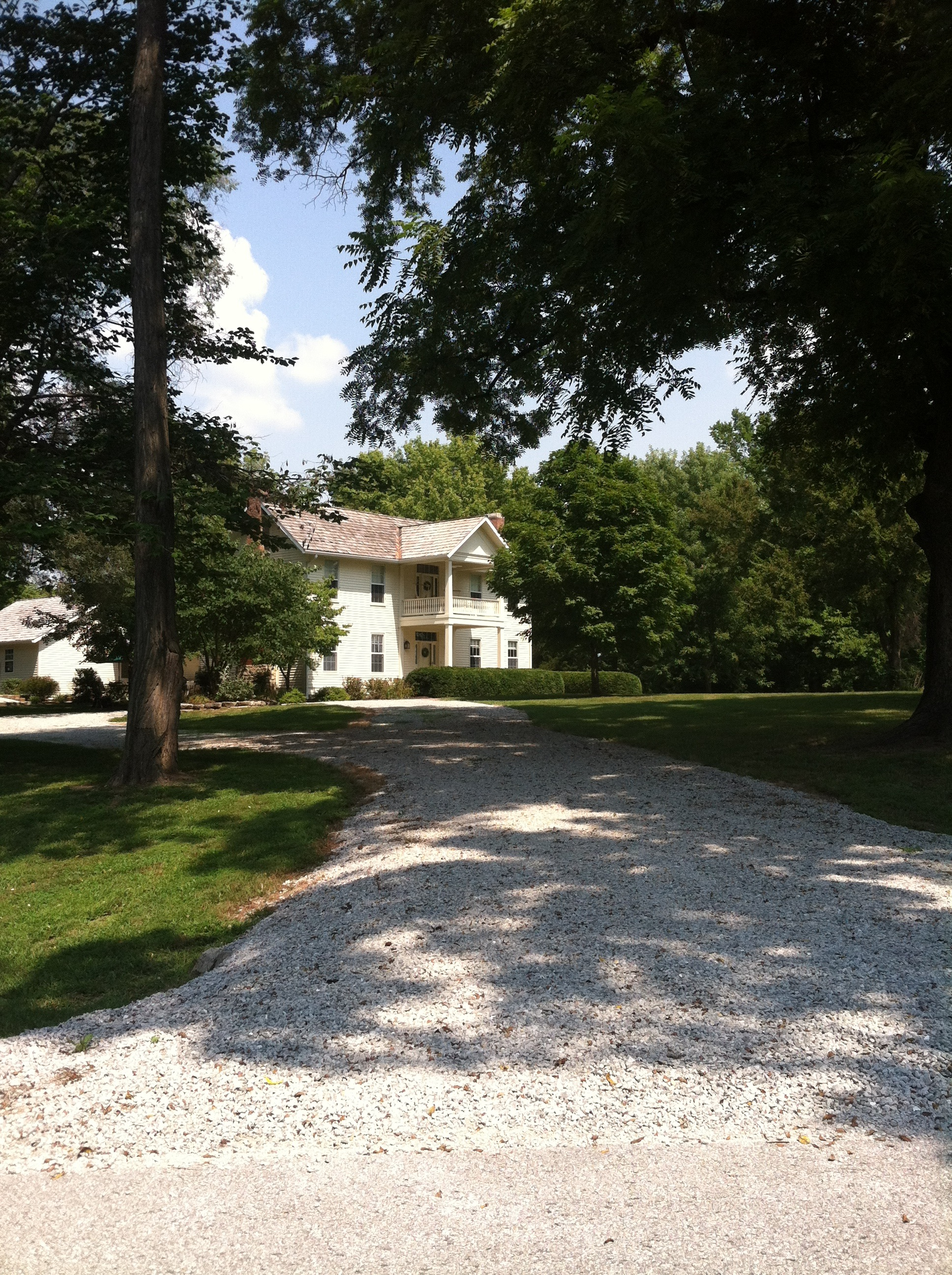 View from the SSW of the William B. Hunt House near Huntsdale, Missouri. August 2013